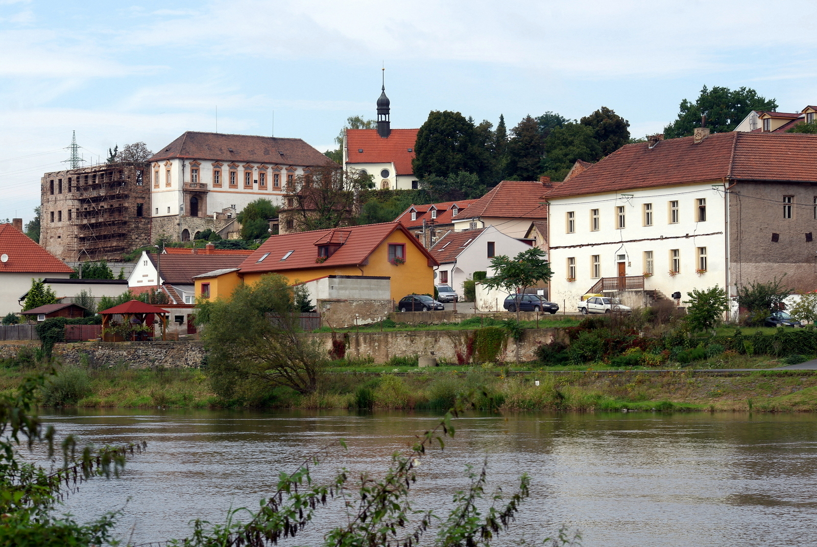 Chvatěruby, view of the historical centrum across the Vltava /Moldau/ river